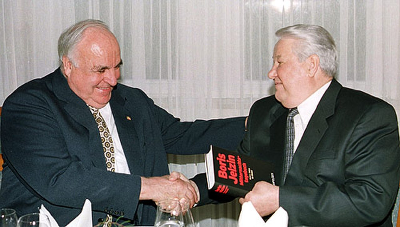 FRANKFURT AM MAIN. With former Chancellor of the Federal Republic of Germany Helmut Kohl. Boris Yeltsin was in Germany because the German edition of his book \'The Presidential Marathon\' was launched at the 52nd International Book Fair.